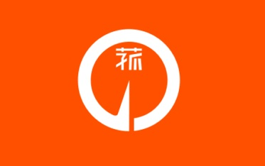 Flag of komono Mie